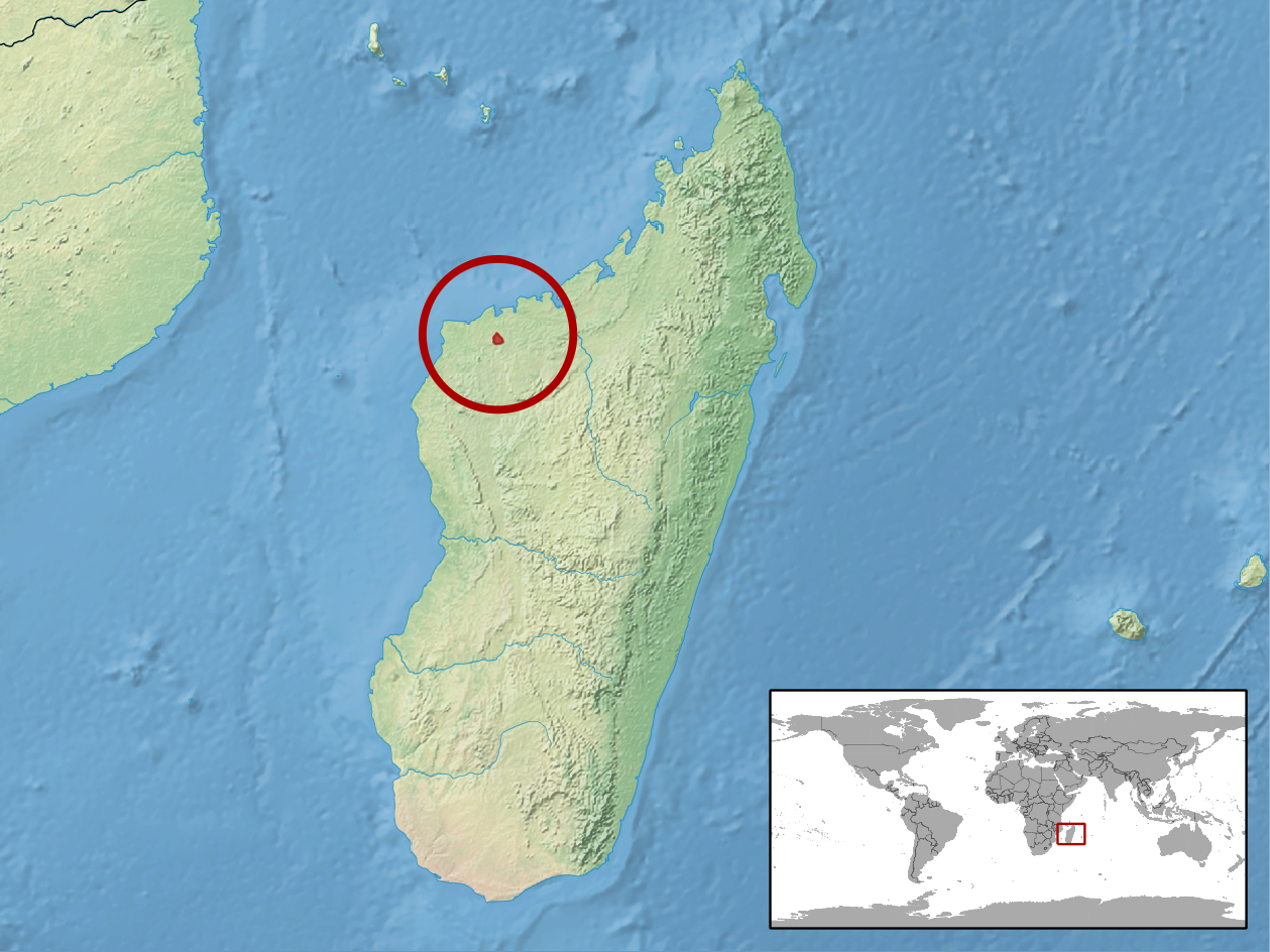 geographic distribution of Brookesia bonsi (Native: Madagascar)